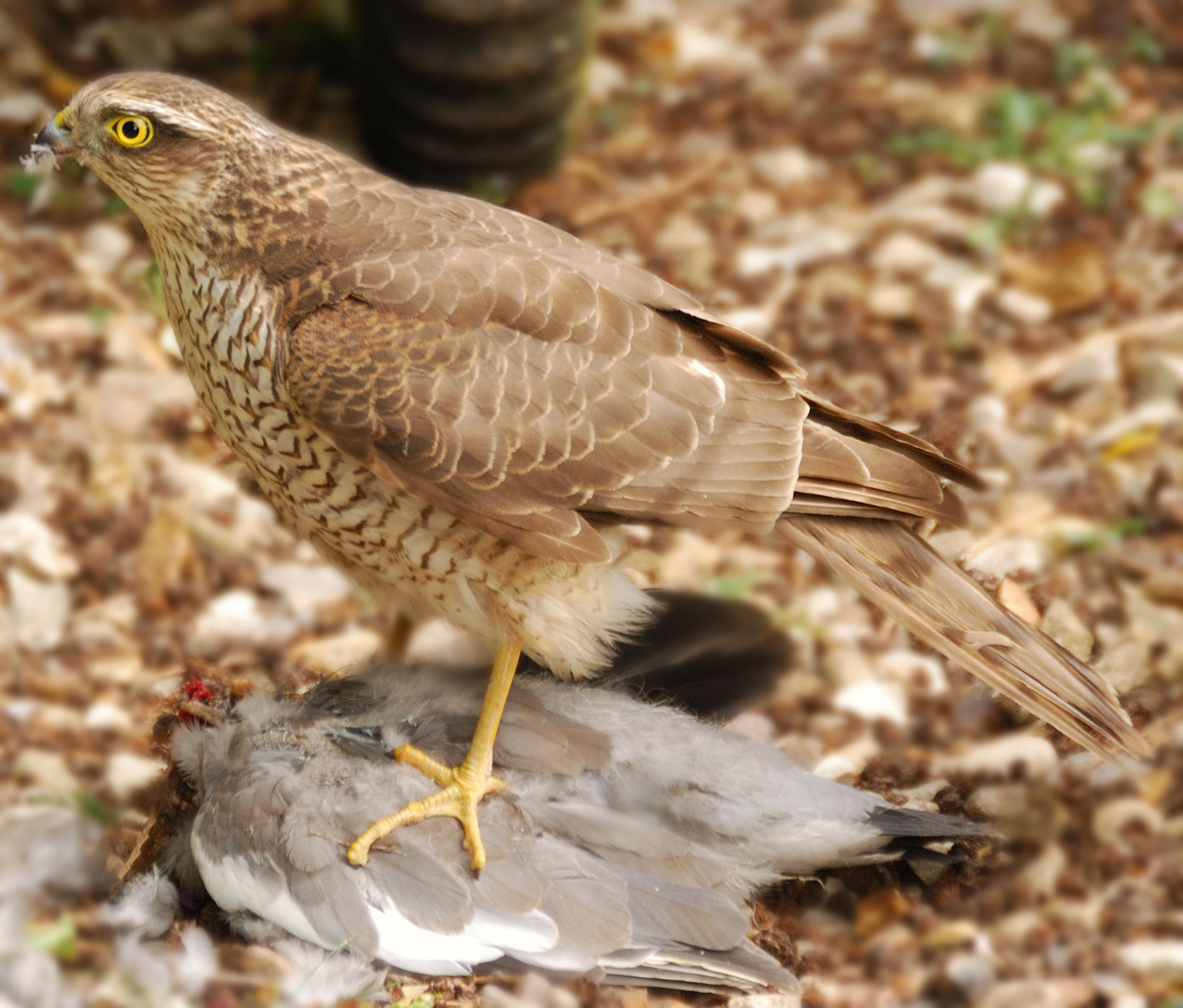 A immature Eurasian Sparrowhawk with a Woodpigeon kill in England.